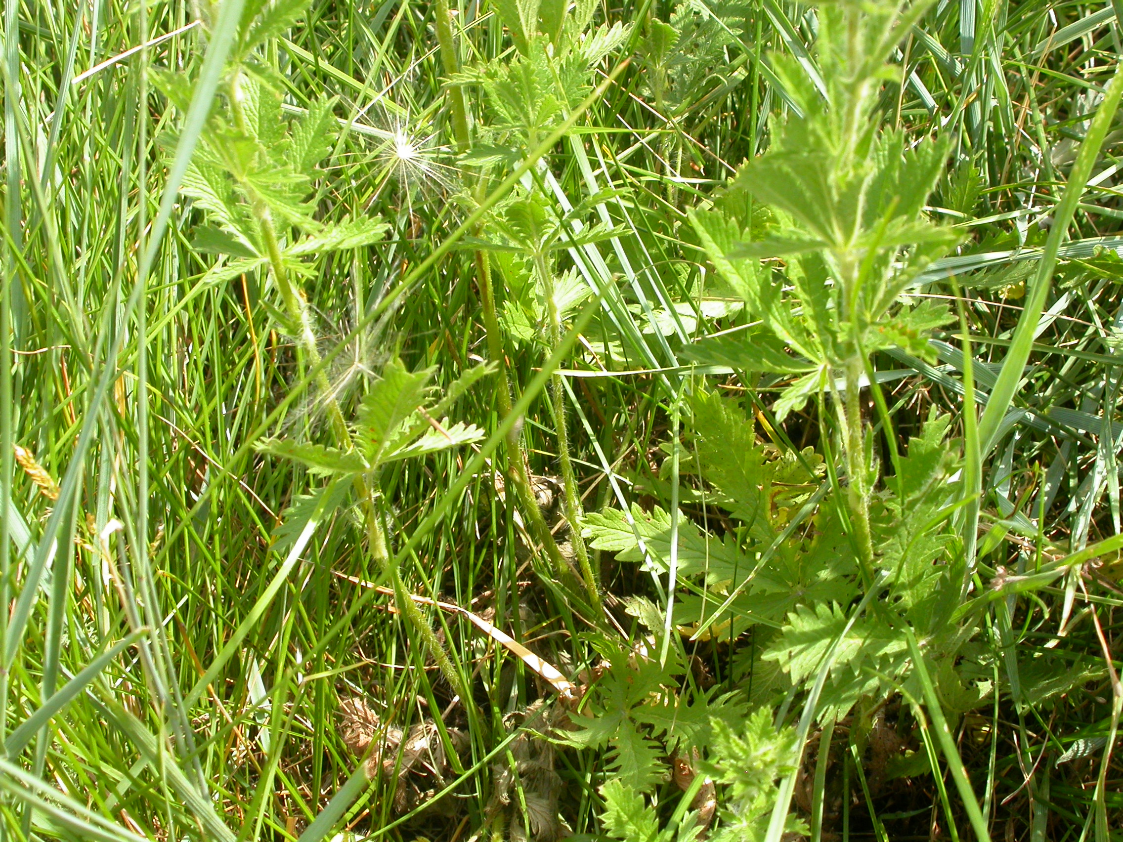 the pale yellow petals, lack of well developed basal leaves, well developed stem leaves, and hirsute stems are characteristic of this species